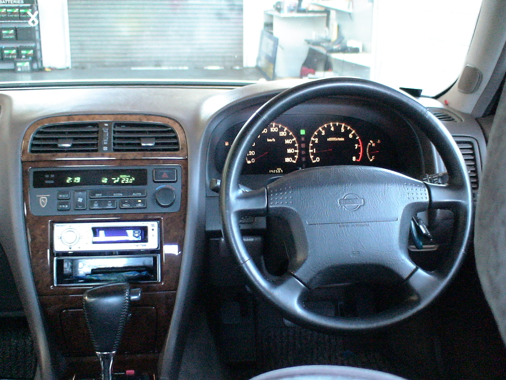 Interior of a Nissan Leopard Y33.